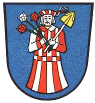 Coat of arms of Unterschüpf